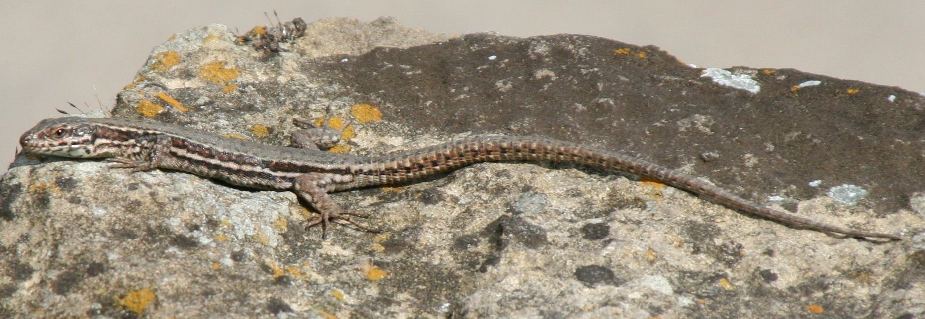 Wall lizard (Podarcis muralis in a vineyard in Heilbronn